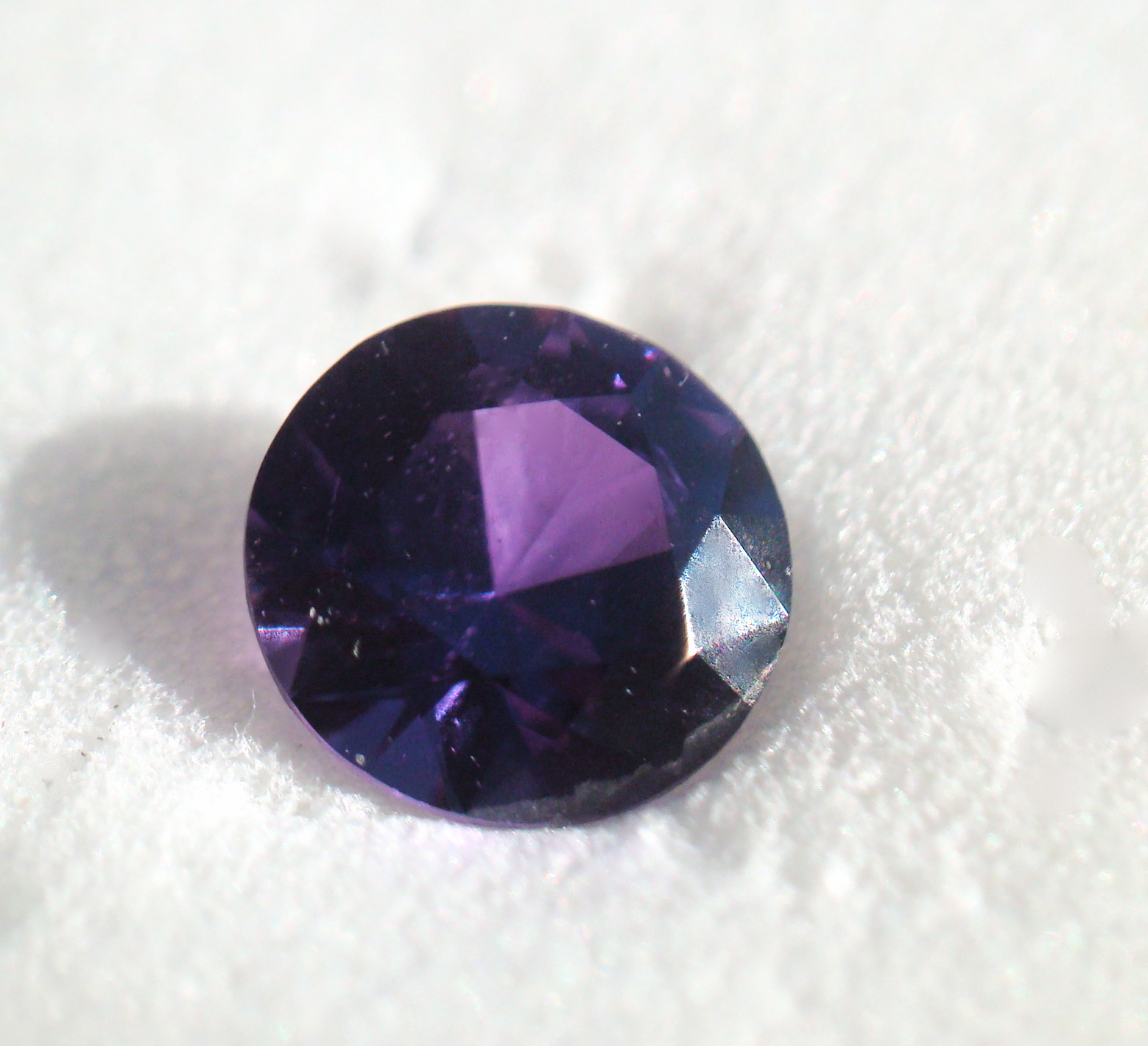 0.37 carat, 4.5 mm, AAA quality, purple Yogo sapphire from Yogo Gulch, Montana. This gem is cut in the traditional brilliant cut . Only 2% of Yogo sapphires are a color other than blue. This 2% of Yogos is almost always purple, an extremely small number are red.